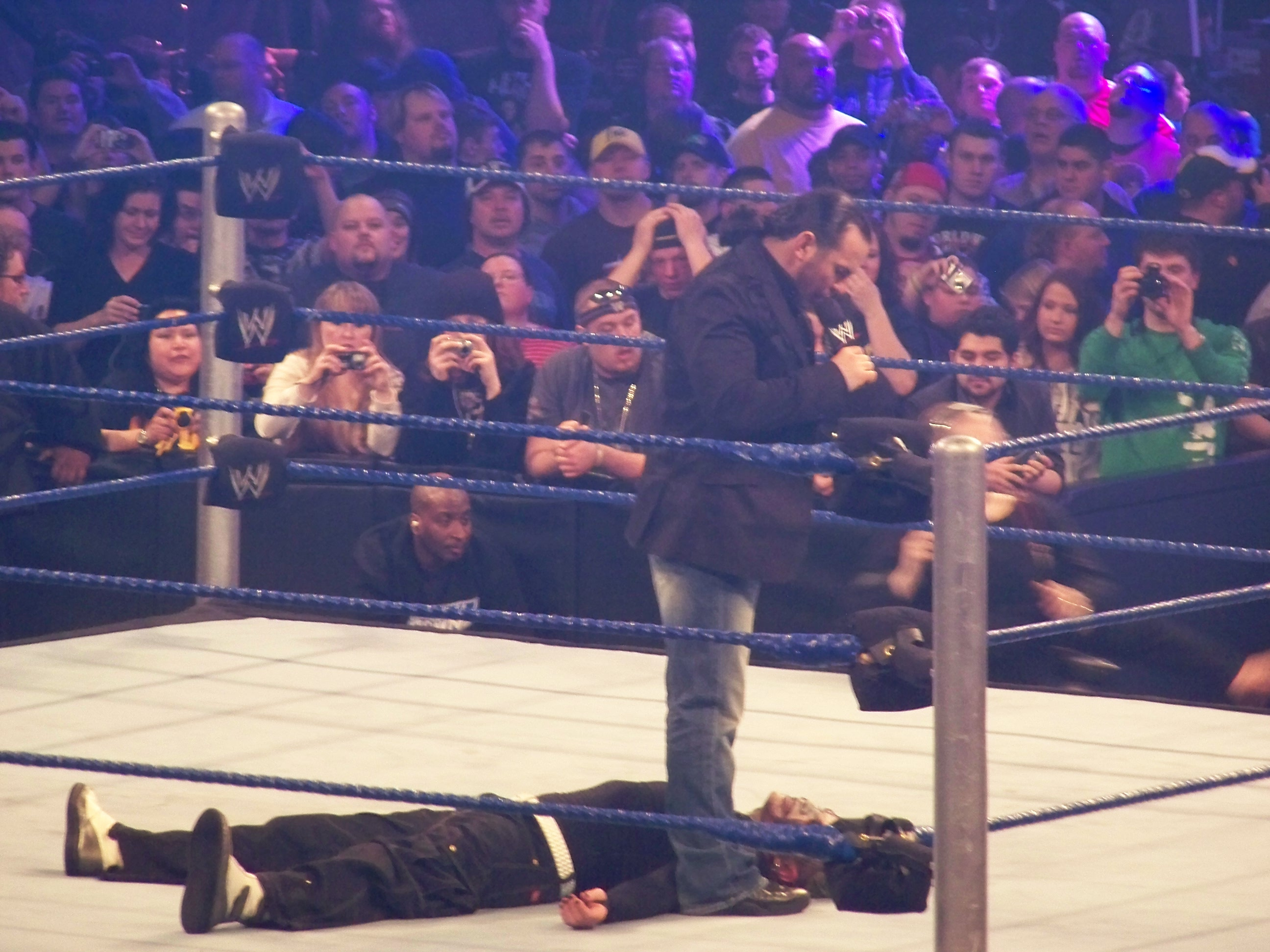 Matt Hardy looks down at a prone Jeff Hardy